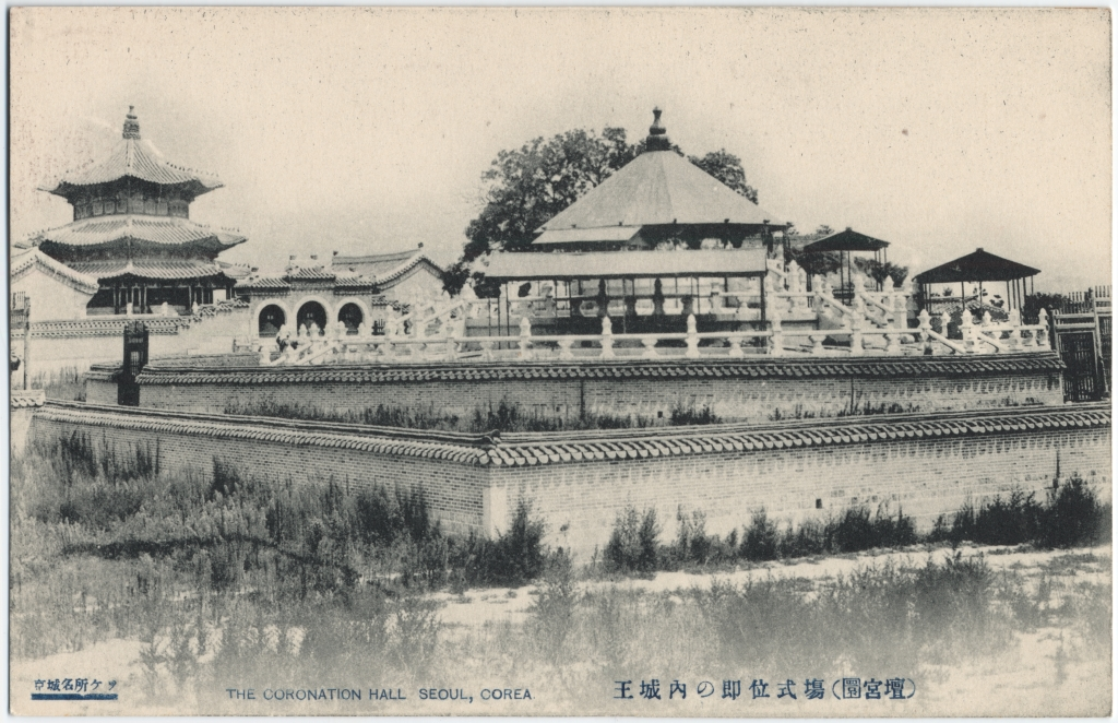 Collection: Willard Dickerman Straight and Early U.S.-Korea Diplomatic Relations, Cornell University Library Title: The Coronation Hall, Seoul, Corea Date: ca. 1904 Place: Asia: South Korea; Seoul Type: Postcards/Ephemera Description: Hwangu-dan, where the coronation of King 'Kojong' was held on Oct. 12, 1897, was an imperial villa. The place was used as a traditional detached palace since King 'Taejong' (reigned 1400-1418) , but it was partially demolished by the Japanese who built 'Choson' Hotel in the place. What remains today is listed as Historic Site No. 157 on the national register and still stands in the form of an octagonal pavilion called 'Hwanggungu' in the garden of the Choson Hotel in Sogong-dong, Chung-gu, Seoul. Sources: Sajin uiro ponun tongnip undong, 1996, v.1, p. 45. City Facts, Seoul Metropolitan Government, web site ; date accessed: May 9, 2003. Inscription/Marks: Inscription imprinted on image: 'The Coronation Hall, Seoul, Corea' Identifier: 1260.74.07.09 Persistent URI: There are no known U.S. copyright restrictions on this image. The digital file is owned by the Cornell University Library which is making it freely available with the request that, when possible, the Library be credited as its source. We had some help with the geocoding from Web Services by Yahoo!